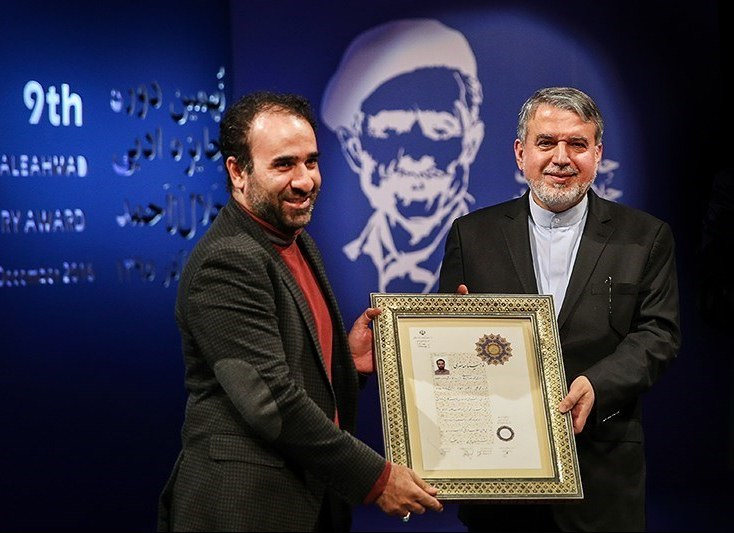 Reza Amirkhani and Sayyed Reza Salehi Amiri in Closing Ceremony of ninth Jalal Al-e Ahmad Literary Award